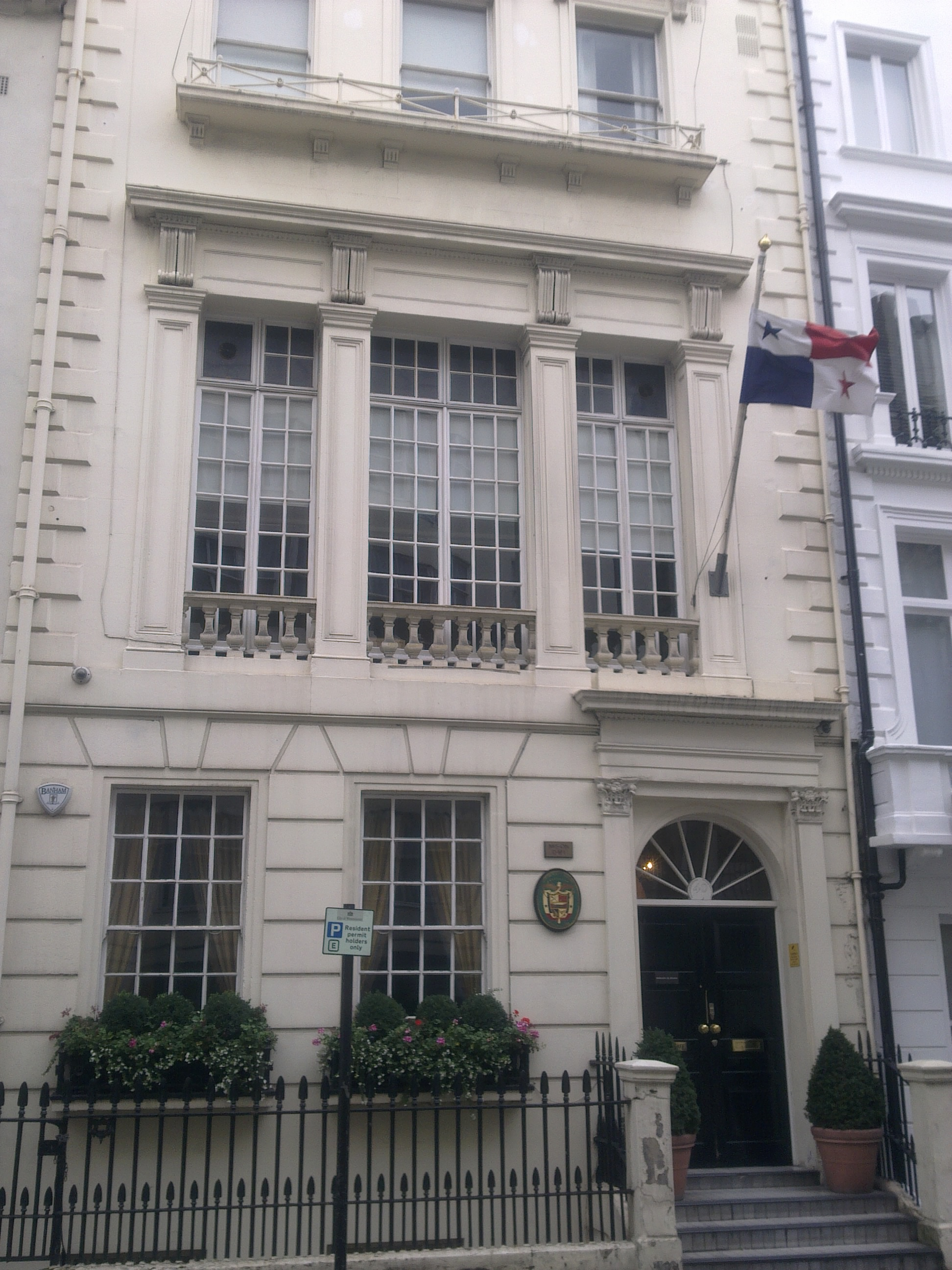 Embassy of Panama in London 1